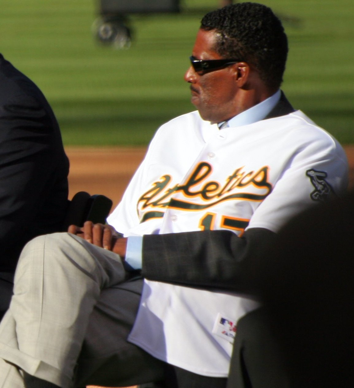 Rickey Henderson, Ray Fosse and Mike Norris (left to right) on the field at Oakland–Alameda County Coliseum during ceremonies honoring Rickey Henderson in 2009